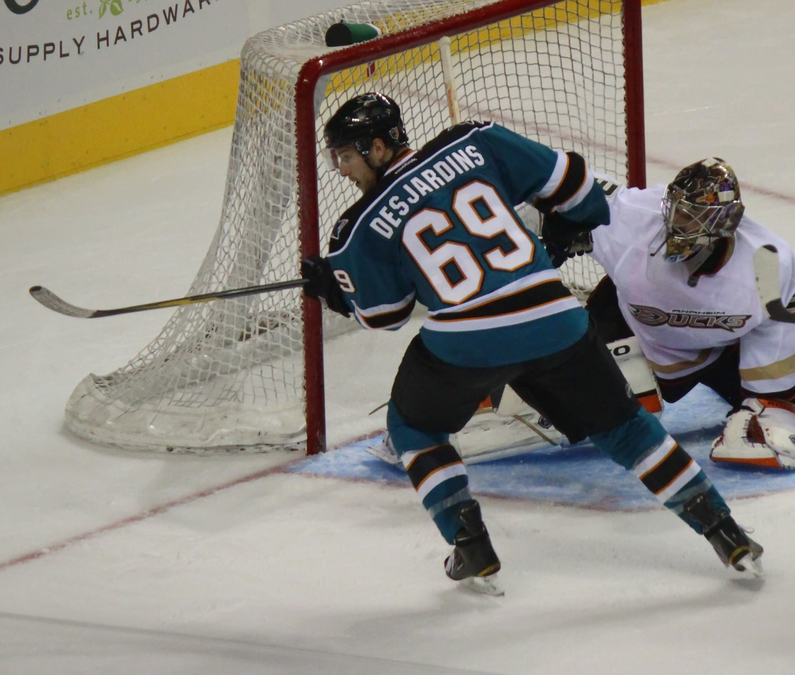 Photo of Andrew Desjardins